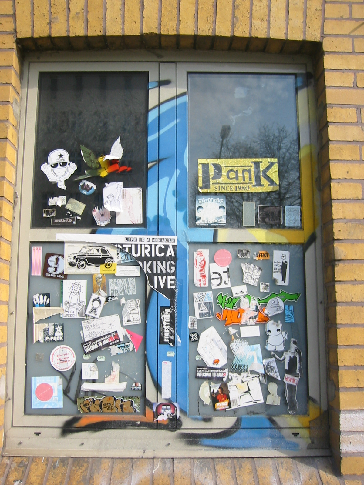 sticker berlin recorded by User:Nicor